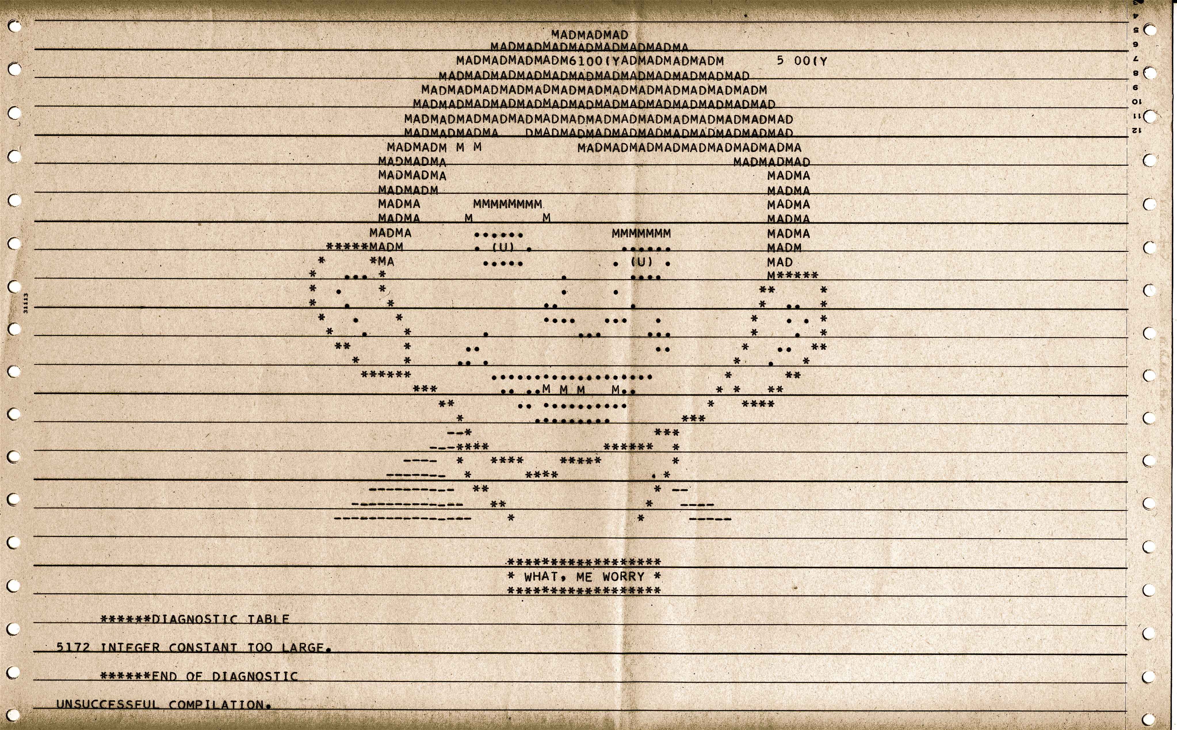 Computer printout from the MAD compiler at the University of Michigan showing a character drawing of MAD Magazine's Alfred E. Neuman and the phrase "What Me Worry" following an error, c. 1960.